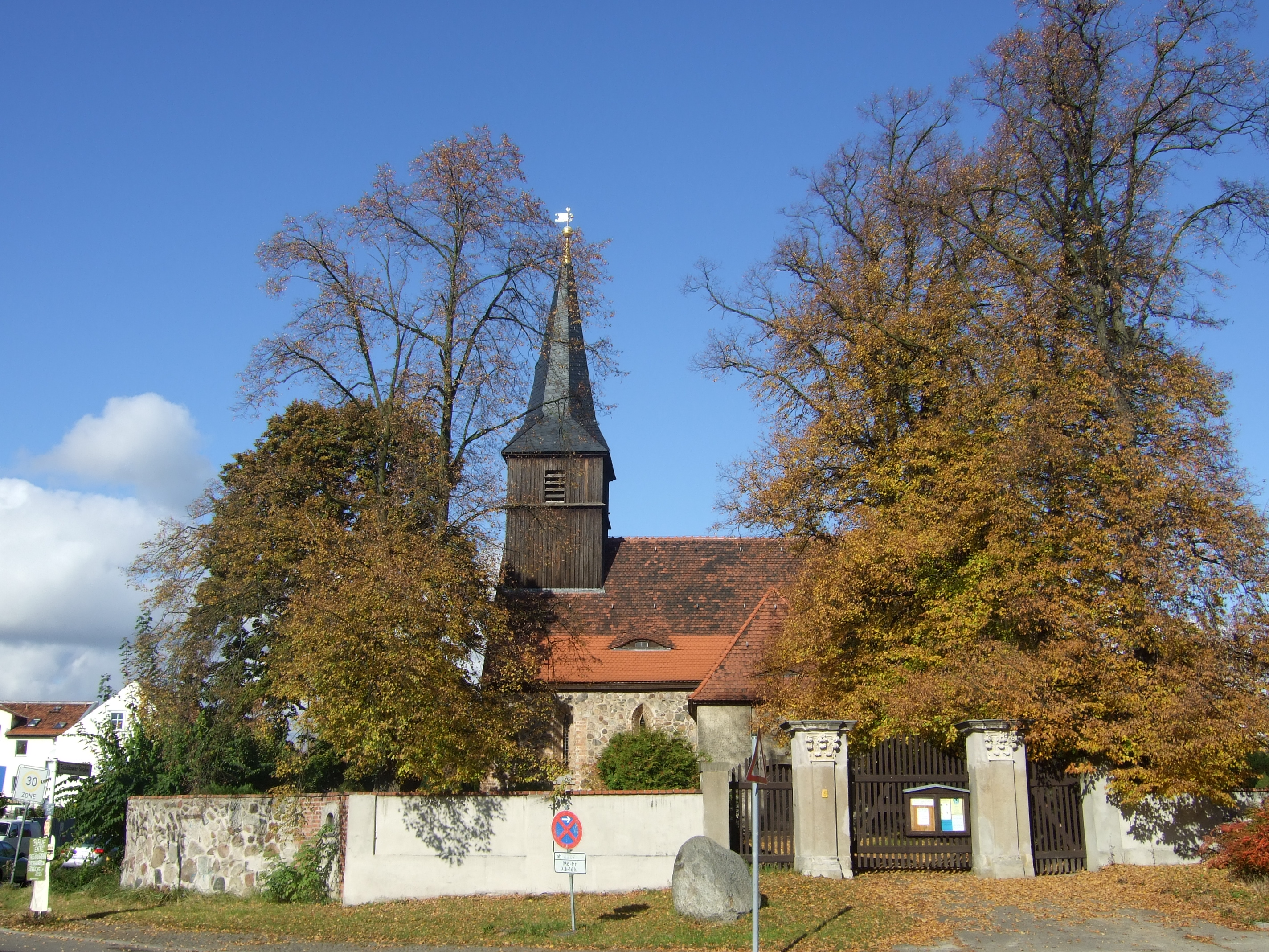 Berlin-Blankenfelde, Germany. Evangelic church, view from north.